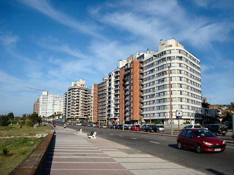 Malvín, Montevideo, Uruguay, along the coastal avenue (Rambla O'Higgins).